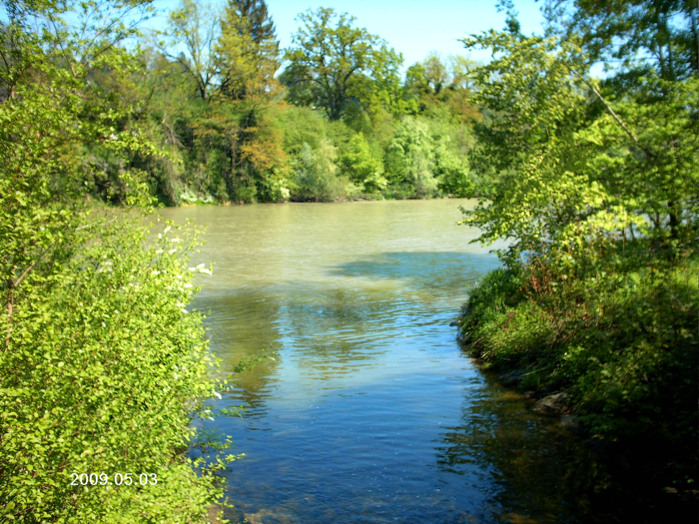 Uze meets Thur